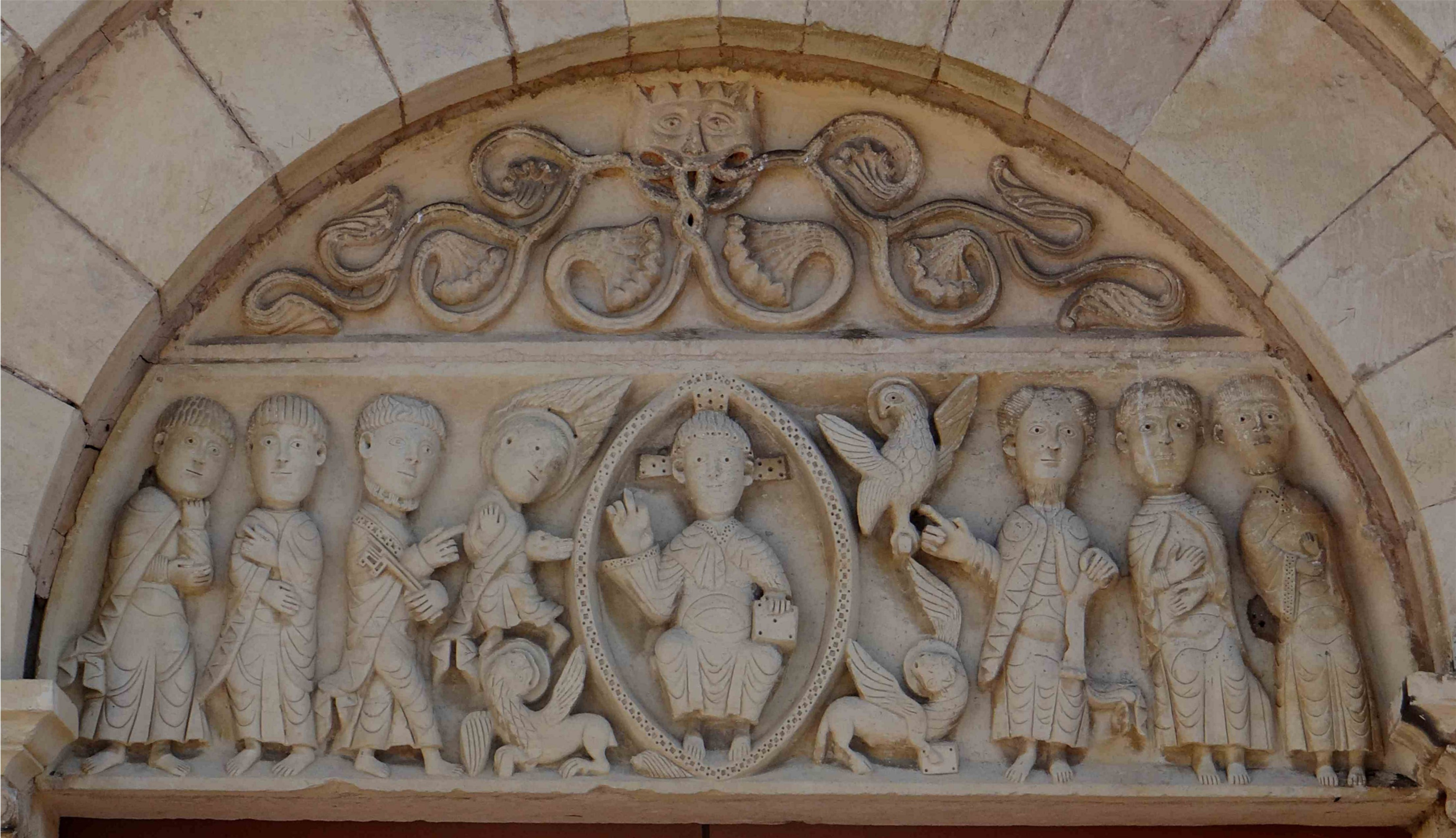 Church Saint-Julien de Mars-sur-Allier, Nièvre, France. The tympanum is a derived iconography of the Apocalypse of John.